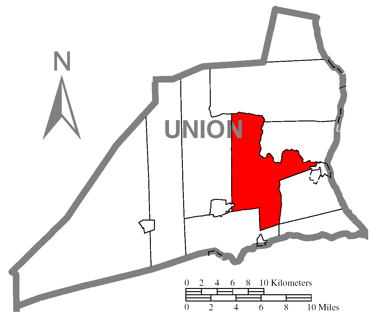 A map of Union County showing Buffalo Township, Pennsylvania (alternate) highlighted on the map.